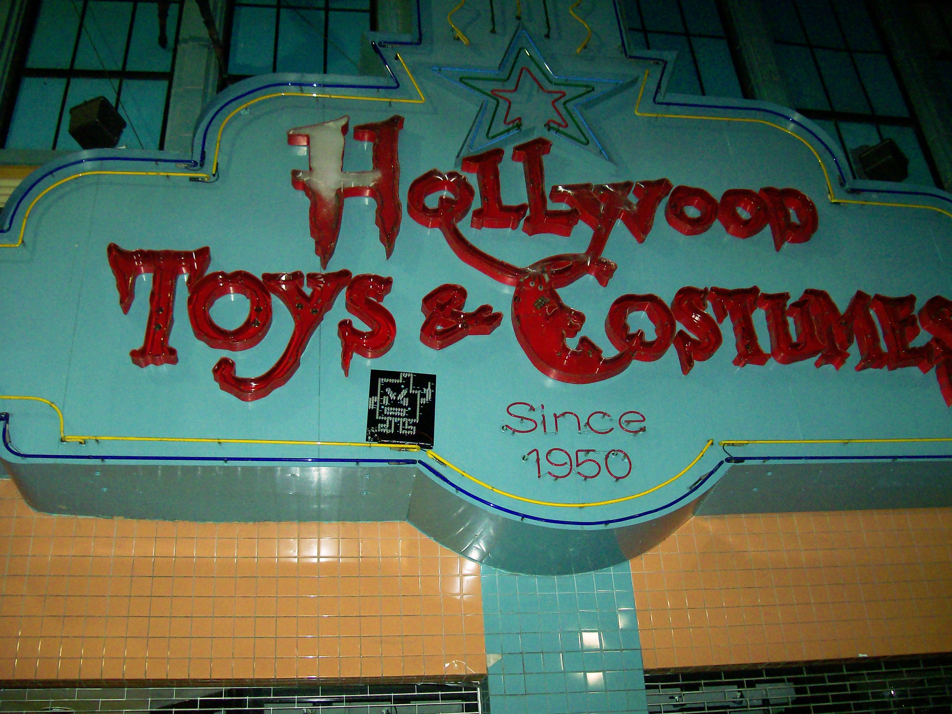 Hollywood Mooninite